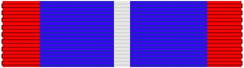 Datuk Amar Bintang Kenyalang (DA) of Order of the Star of the Hornbill - Grootcommandeur uit 1973 oud lint